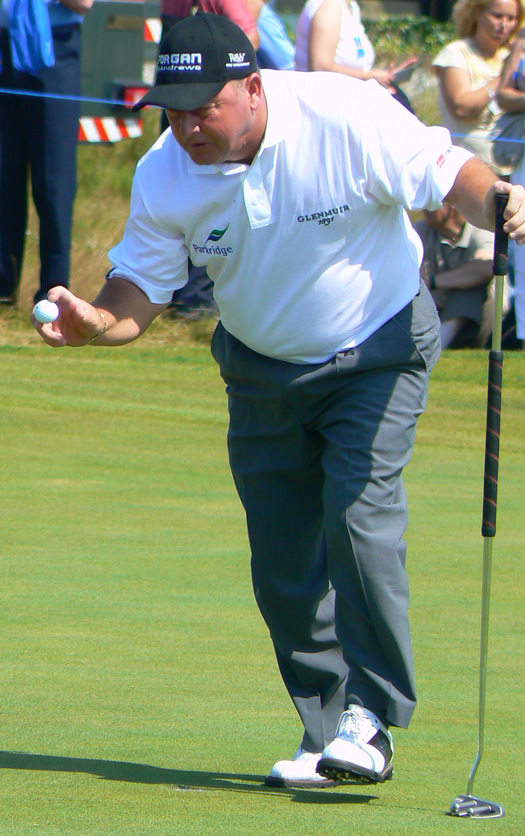 Ian Woosnam at Royal Troon Golf Club